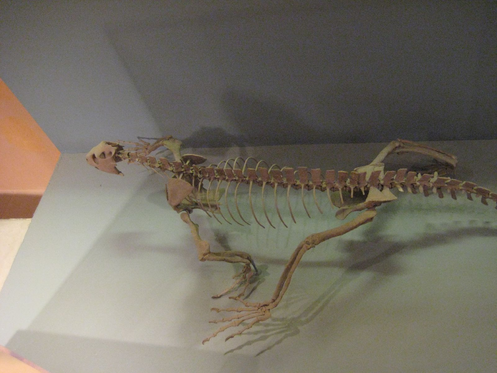 210 - 200 million years ago Late Triassic